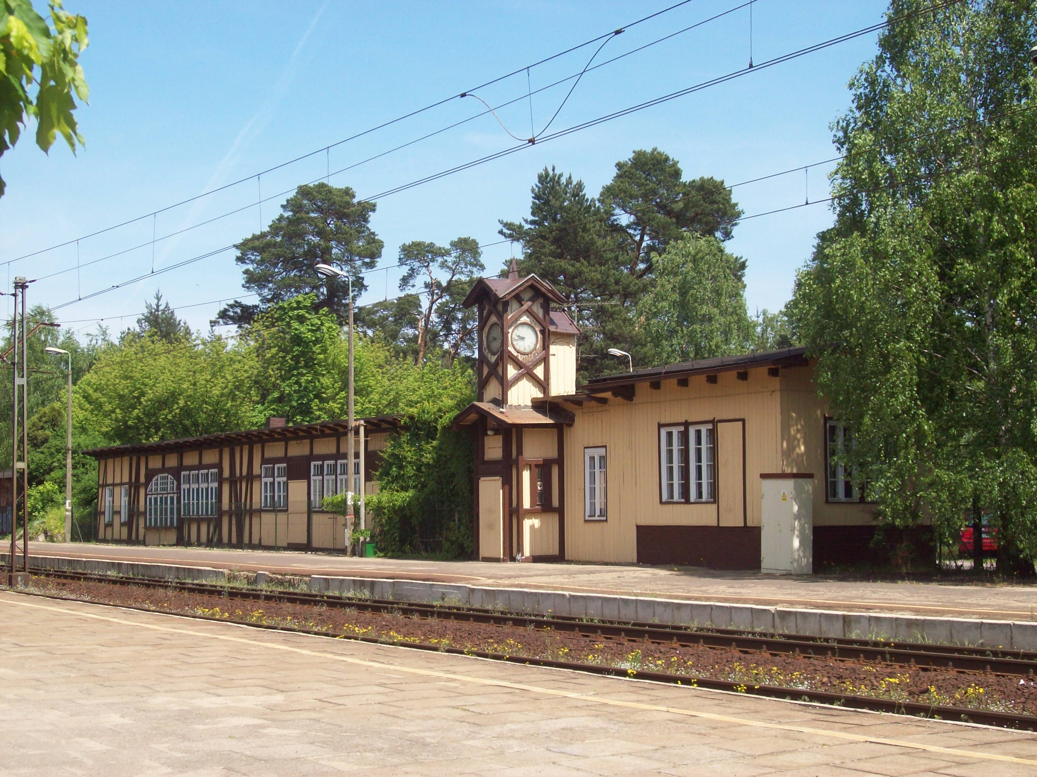 Railway station in Puszczykowo, Poland